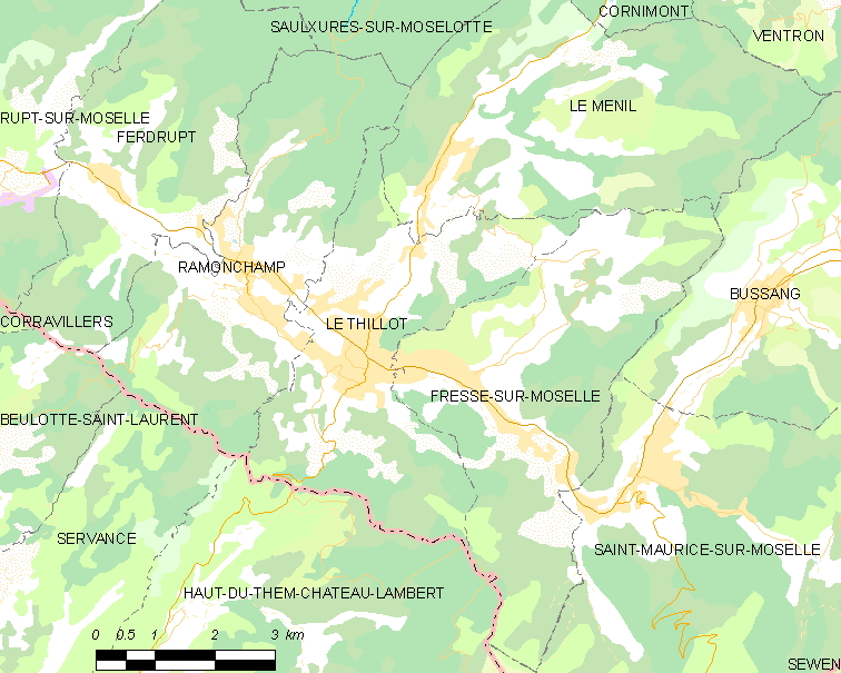 Map of French municipality Le Thillot